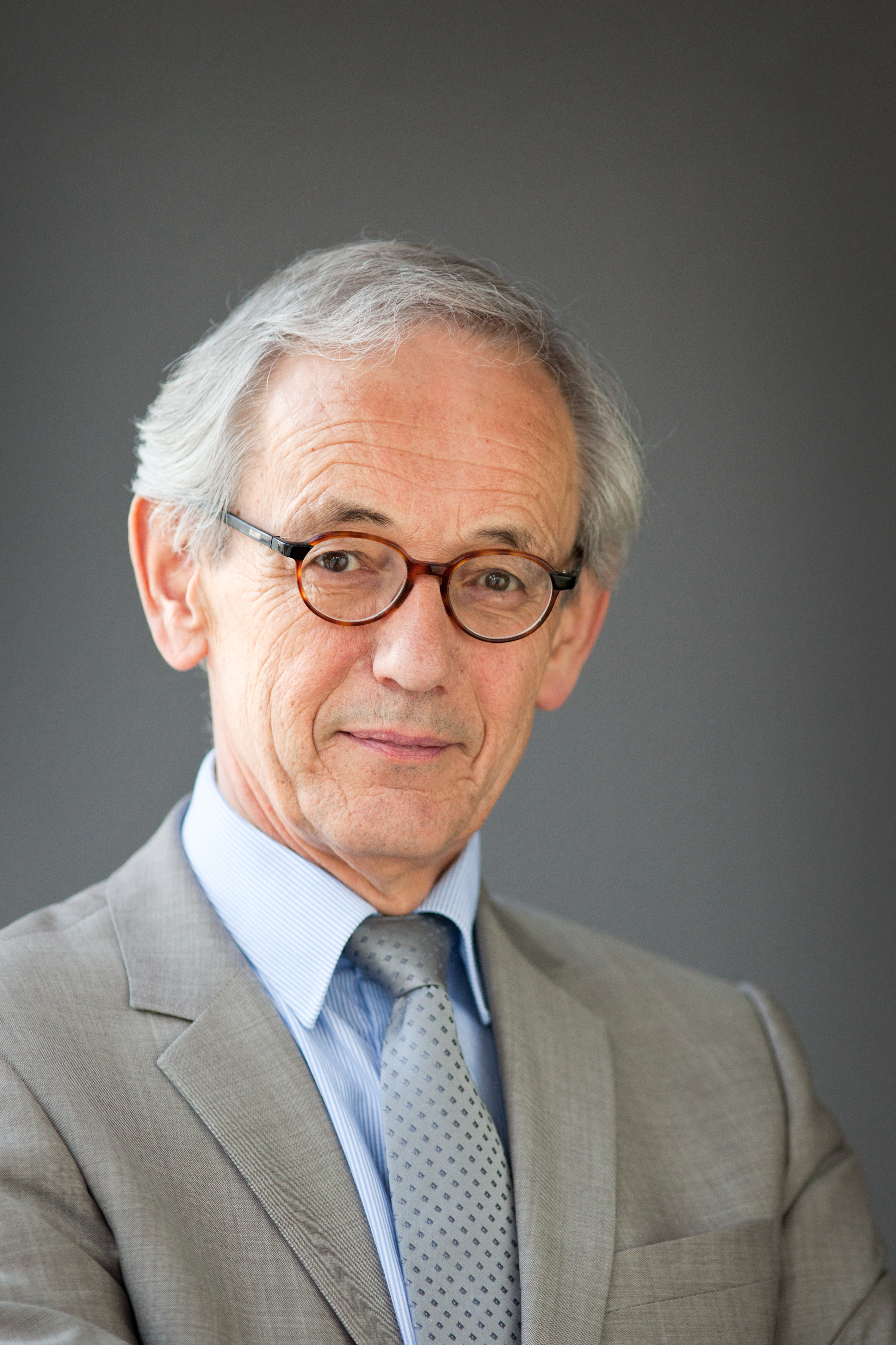 Dean at The Hague Institute for Global Justice